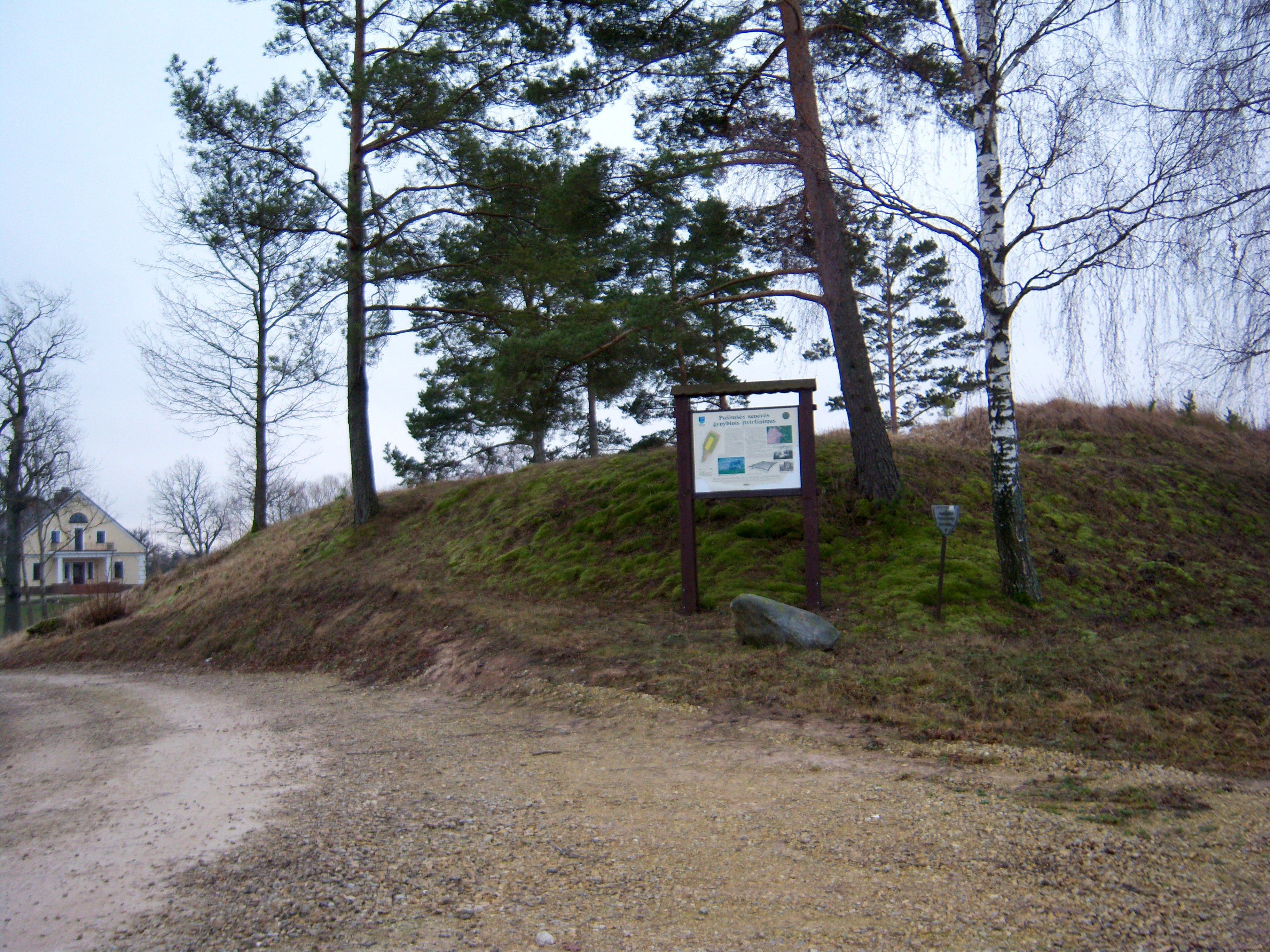 Pašimšė hillfort, ancient defensive fortification, Kelmė District, Lithuania